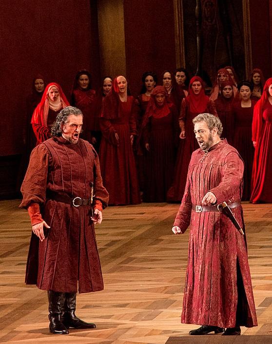 Plácido Domingo as the Conte di Luna in Il trovatore with Riccardo Zanellato as Ferrando and the Chorus of Vienna State Opera at the 2014 Salzburg Festival (cropped)